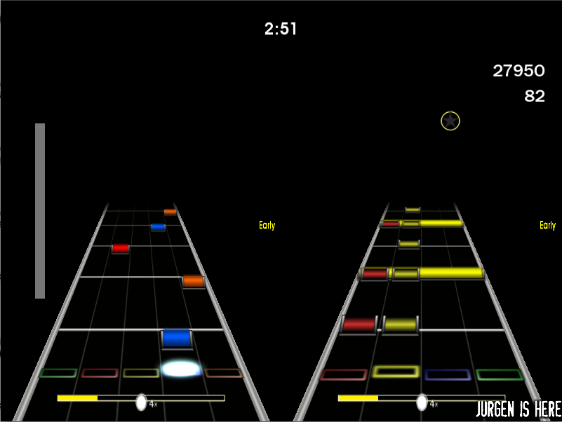 Frets on Fire X screenshot